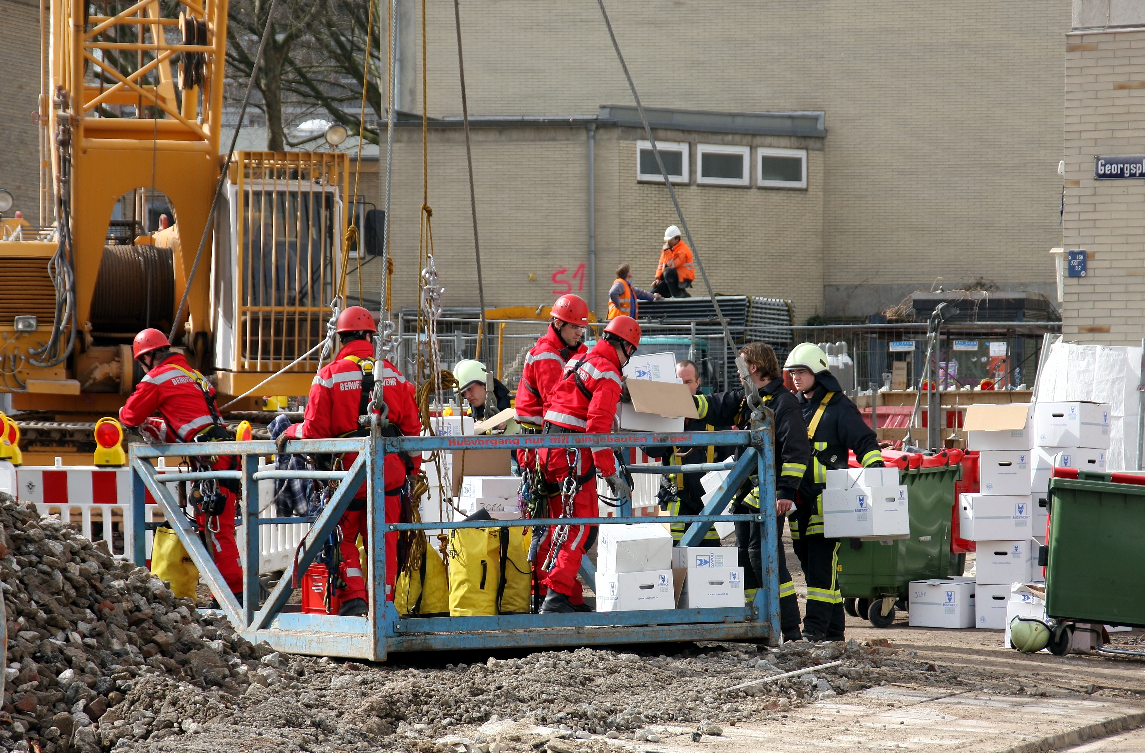 Rescue operations after the collaps of the historical city archives of Cologne. View from Georgsplatz. Firefighters preparing the rescue of documents in the ruins.